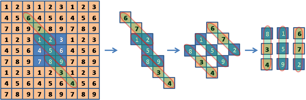 Easy descriptive figures of constructing a magic square of odd order n. أشكال توضيحية لعملية إنشاء المربع السحري ذو الثابت الفردي